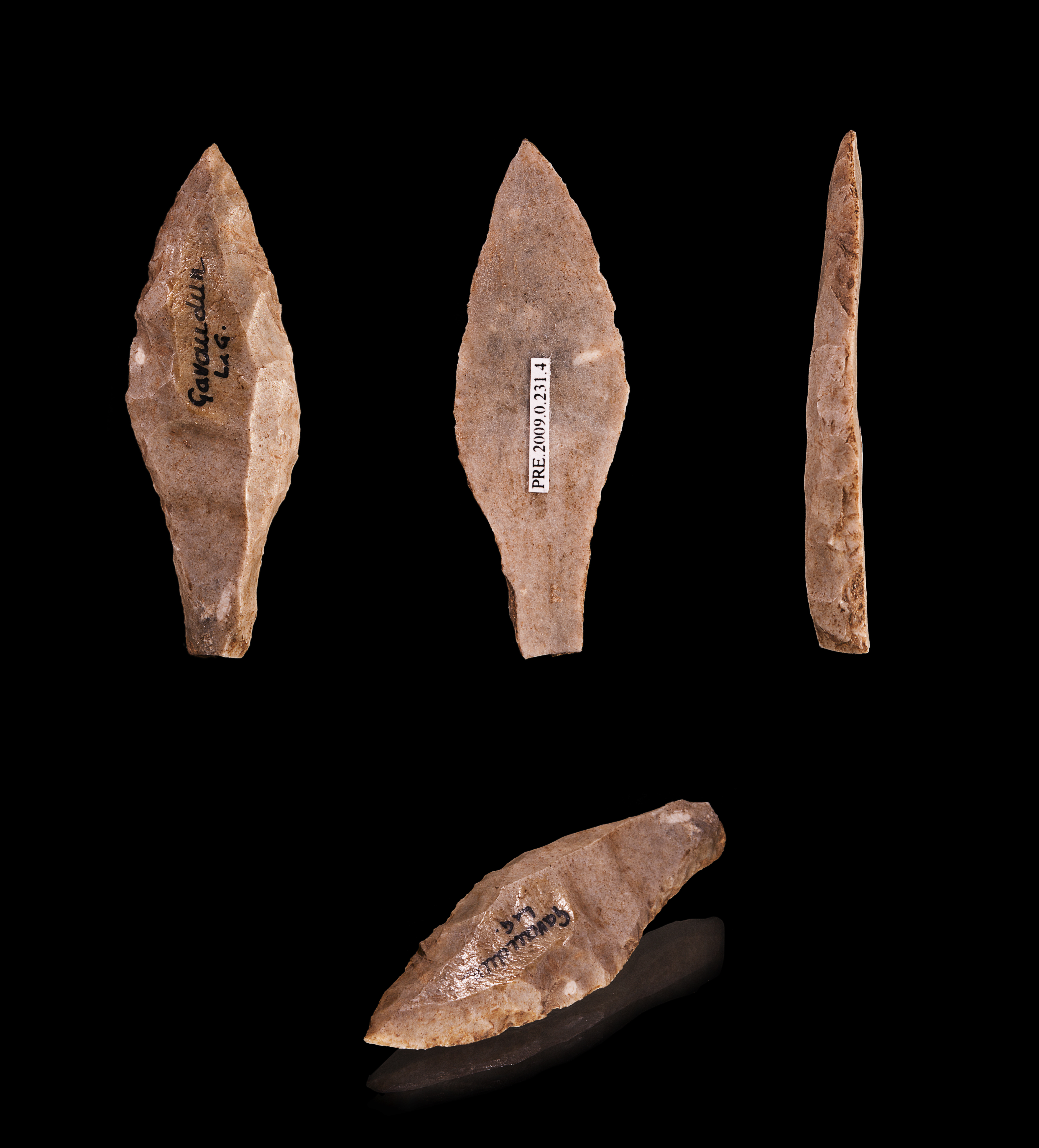 Arrowhead Font-Robert - Different views of the same specimen.